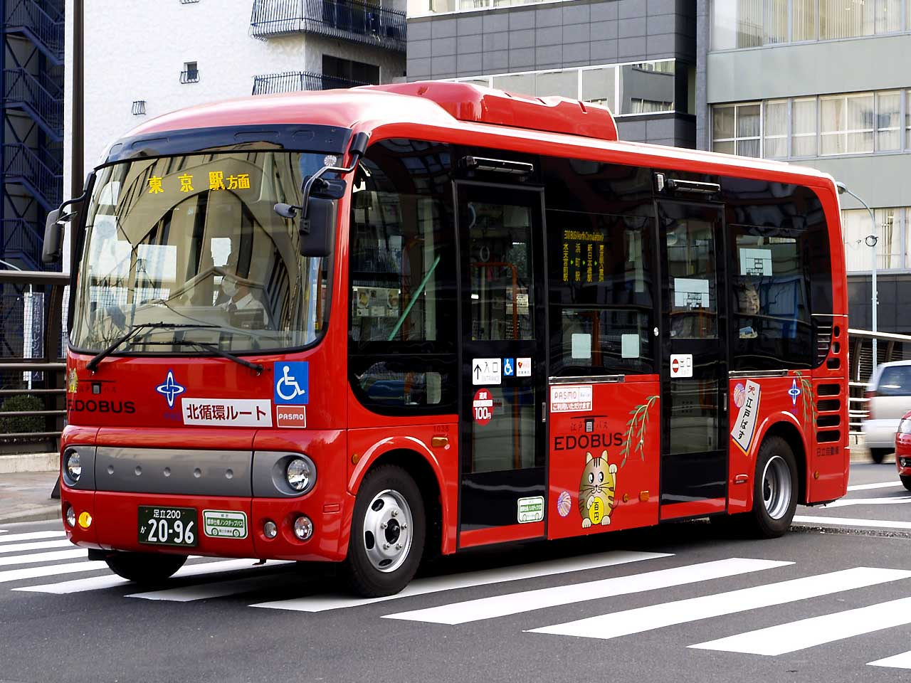 Fleet of "Edo Bus", community route buses of Chuo Ward, Tokyo, operated by Hitachi Jidosha Kotsu. Model: Hino Poncho BDG-HX6JLAE License plate: TKA200KA2096 Place: neighbour of Chuo Ward office, Tsukiji, Tokyo Japan